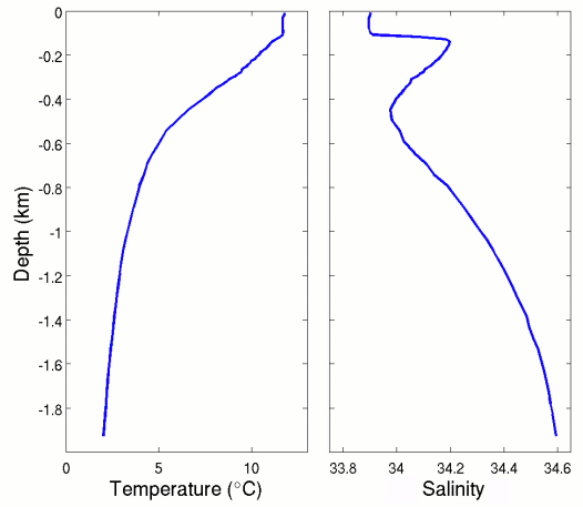 Profiles temperature and salinity from an Argo float obtained in the central North Pacific Ocean (38.4°N, 155.3°W) on 8 April 2005.